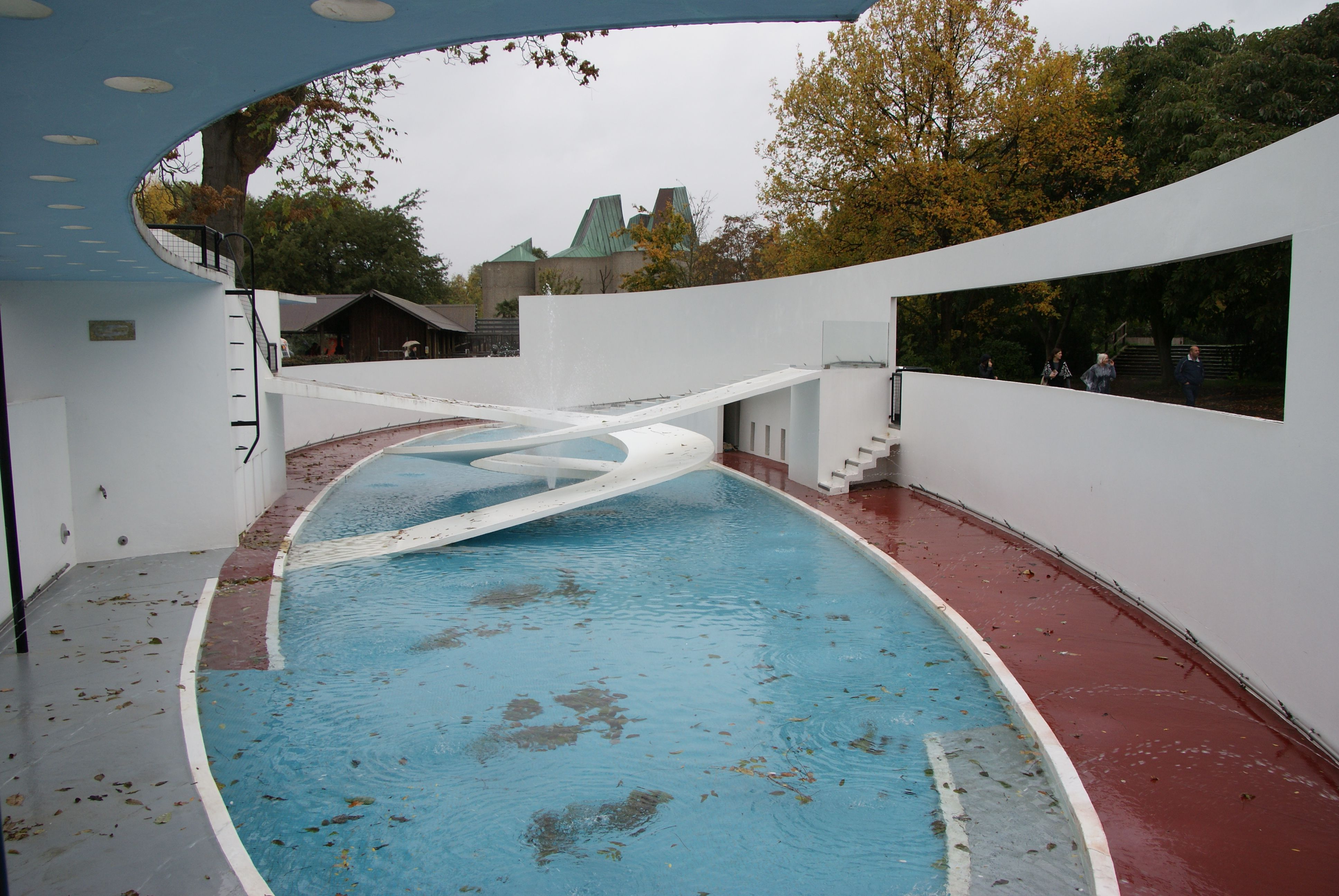 Grade 1 listed Penguin pool, London Zoo, England. Now a water feature and not used to keep Penguins.